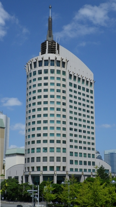 Hotel The Manhattan